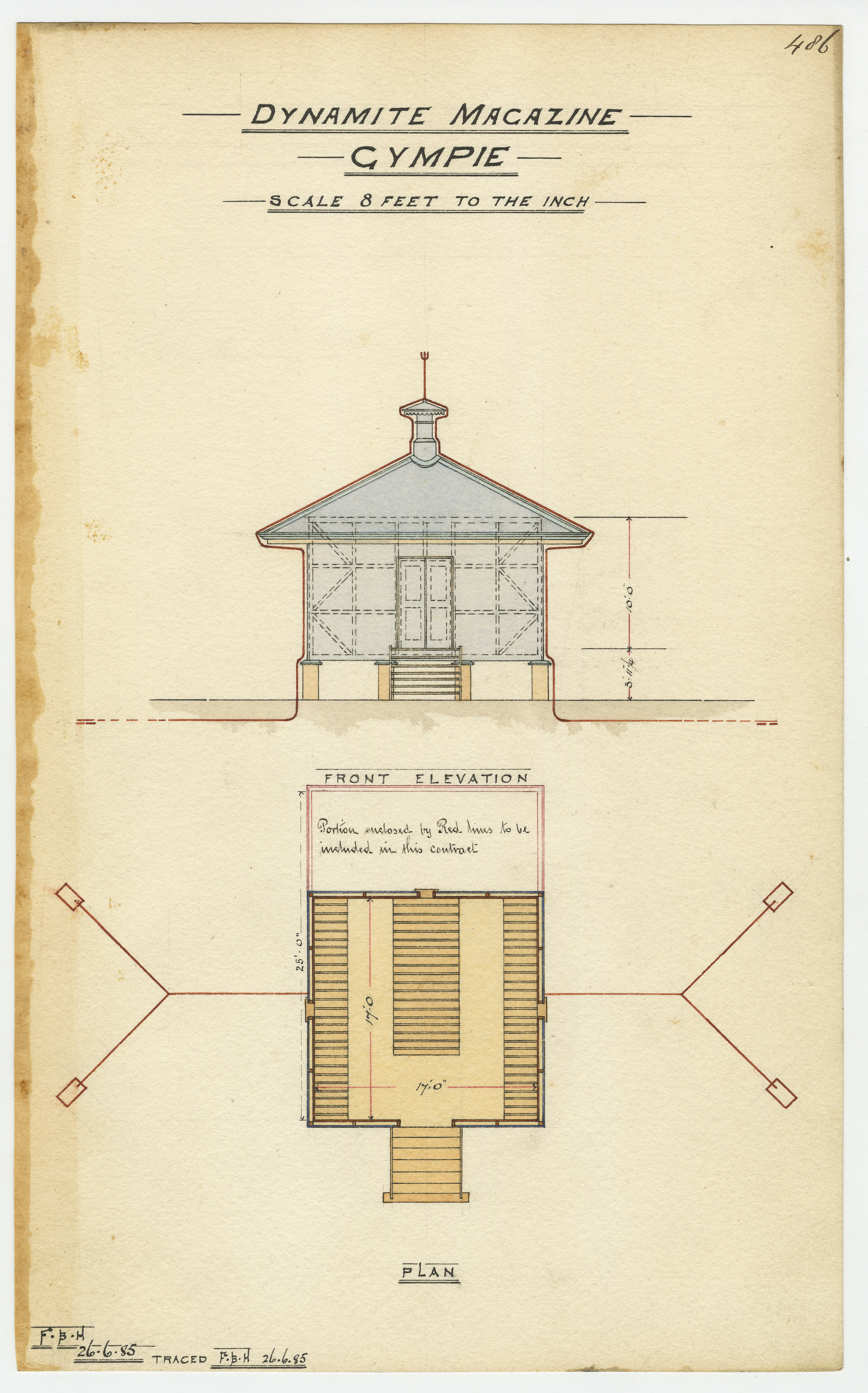 Architectural drawing of the Dynamite Magazine, Gympie, 26 June 1885